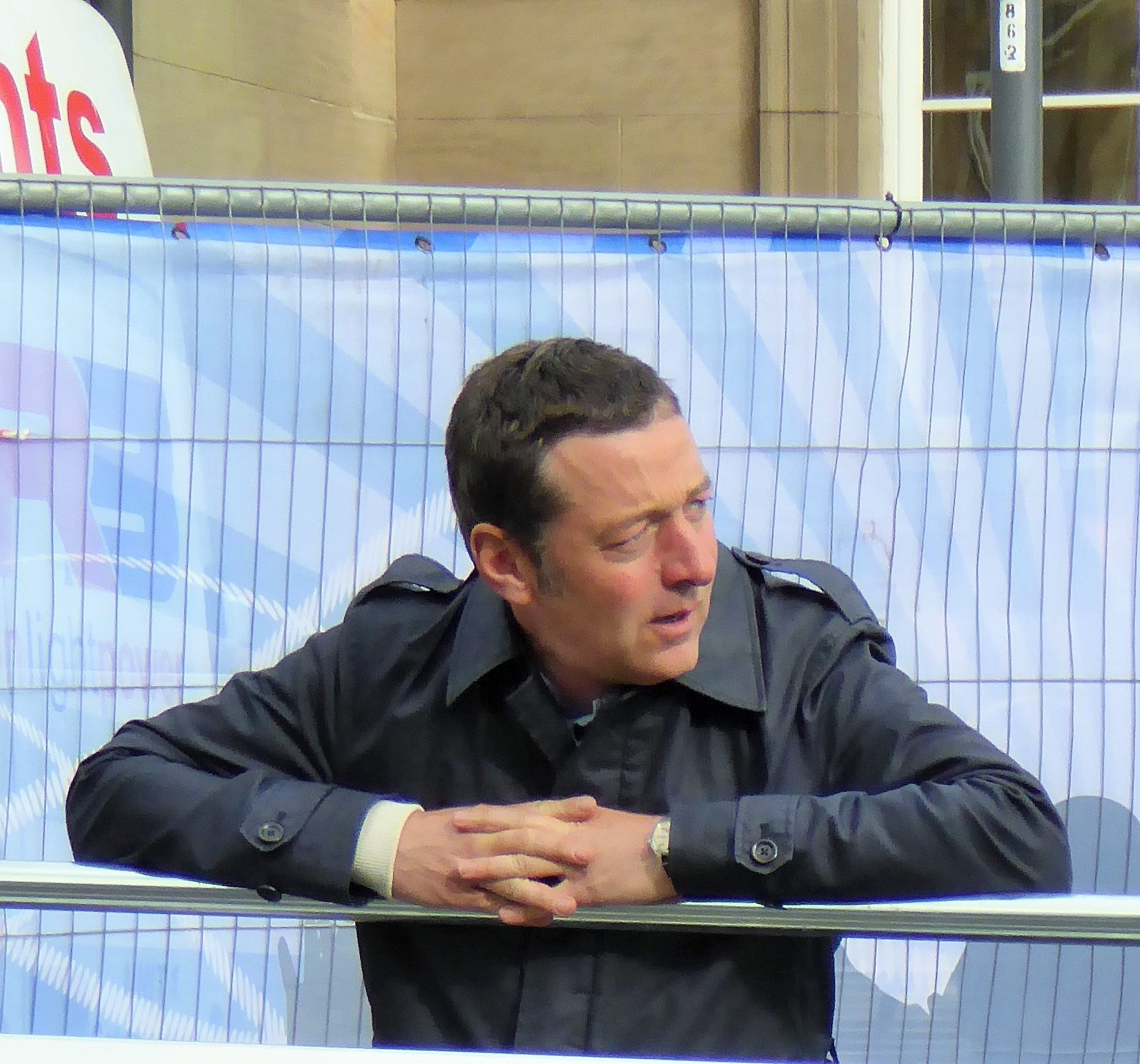 Ned Boulting, pictured at Round 4 of the Pearl Izumi Tour Series in Motherwell on 26 May 2015.